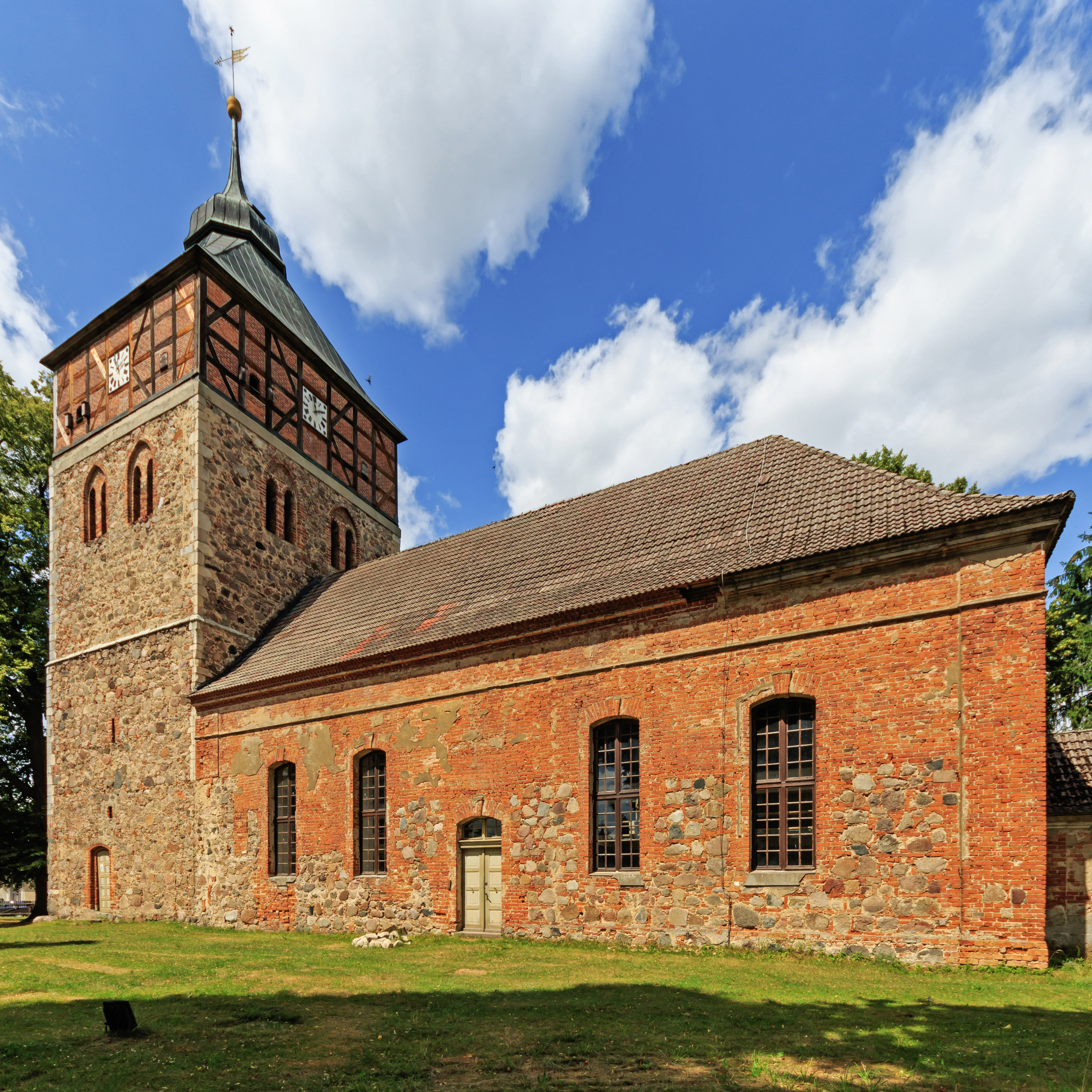 Village church (Immanuelkirche) in Groß Schönebeck / Schorfheide, Brandenburg, Germany